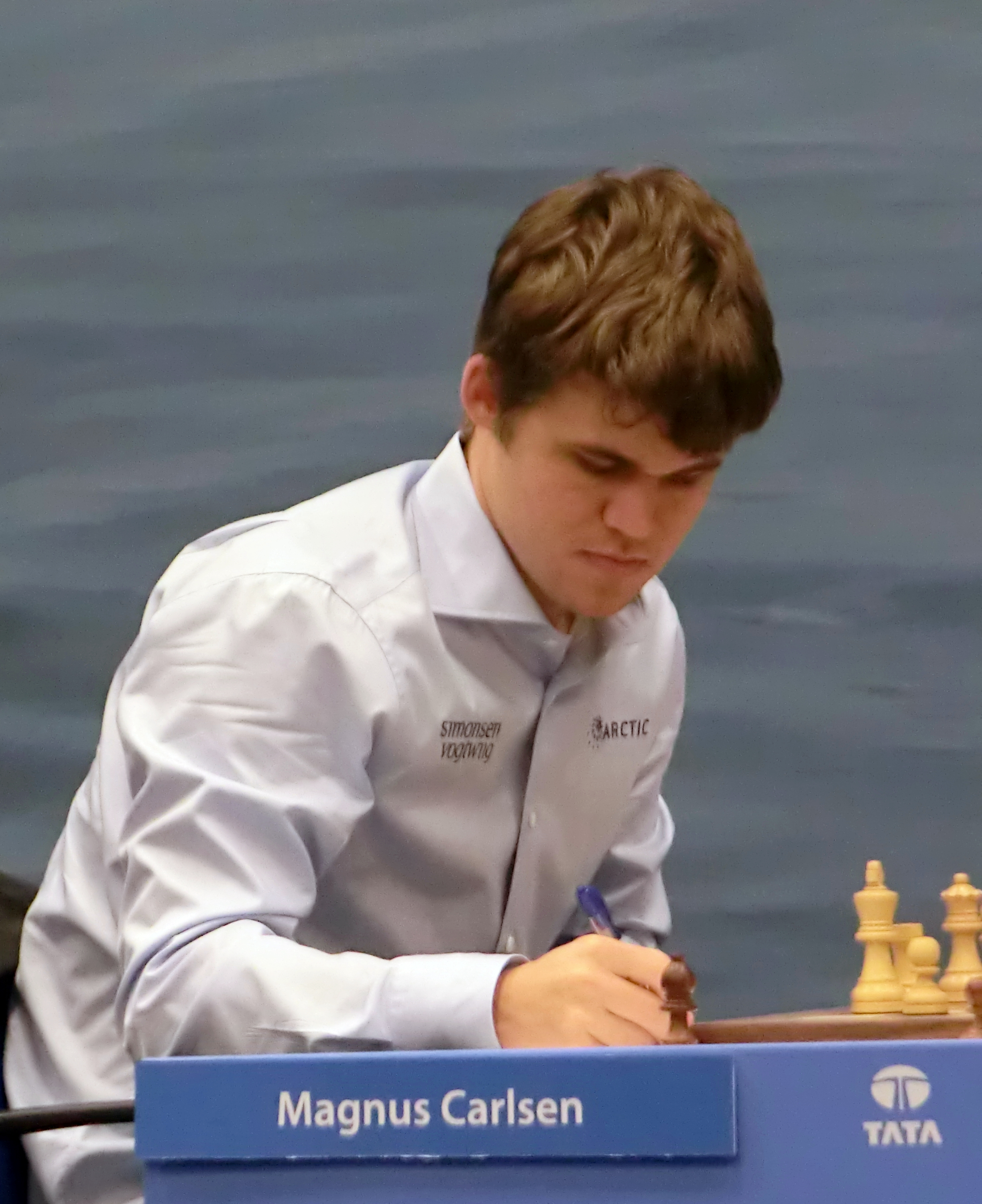 Magnus Carlsen, chess grandmaster from Norway